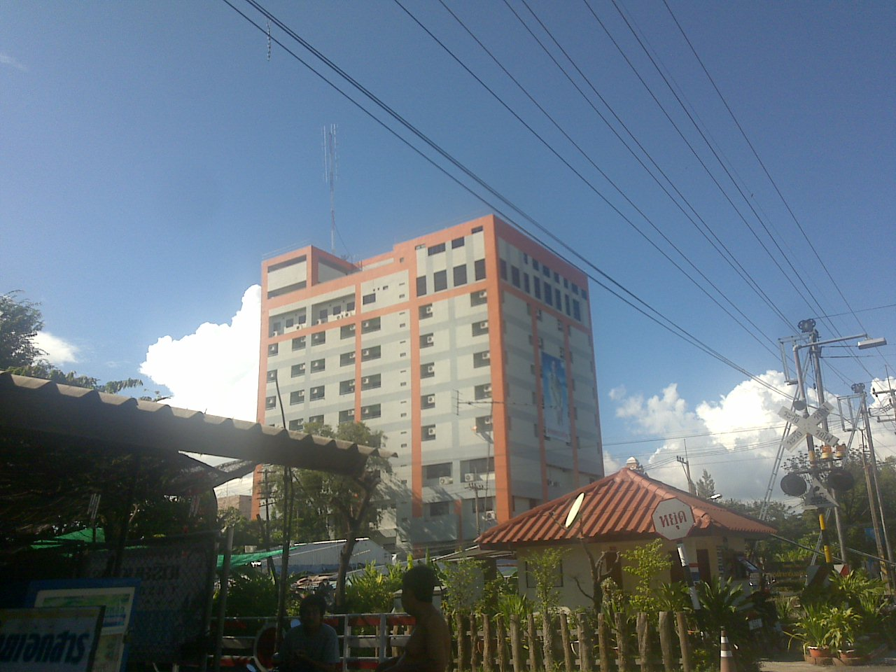 Medical Edu. Center Building, Buriram